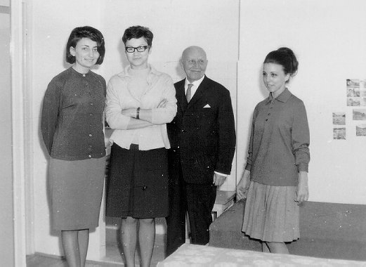 Koltay-Kastner Jenő in college of Móra